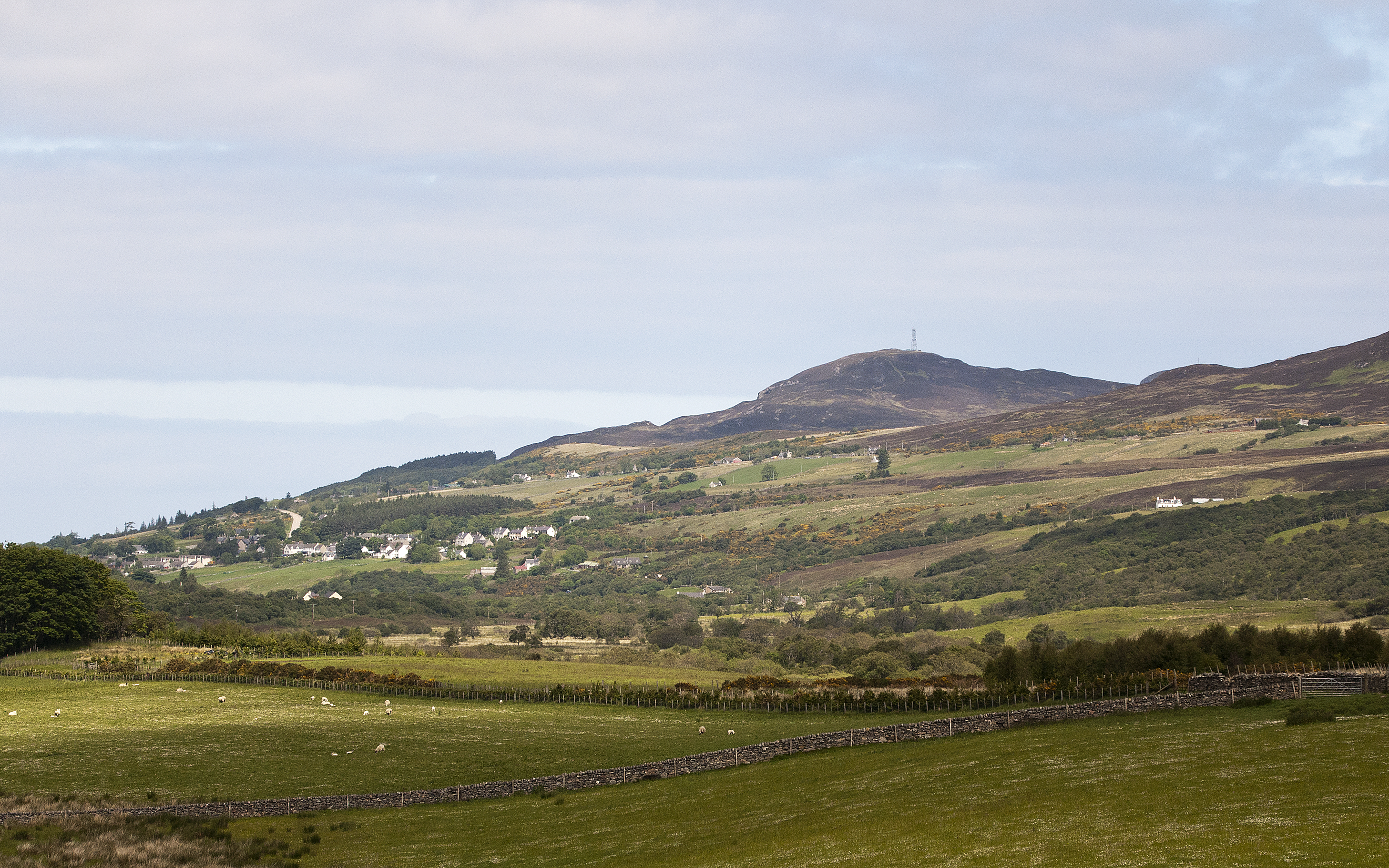 Tongue, from the path leading to Ben Loyal, Scotland